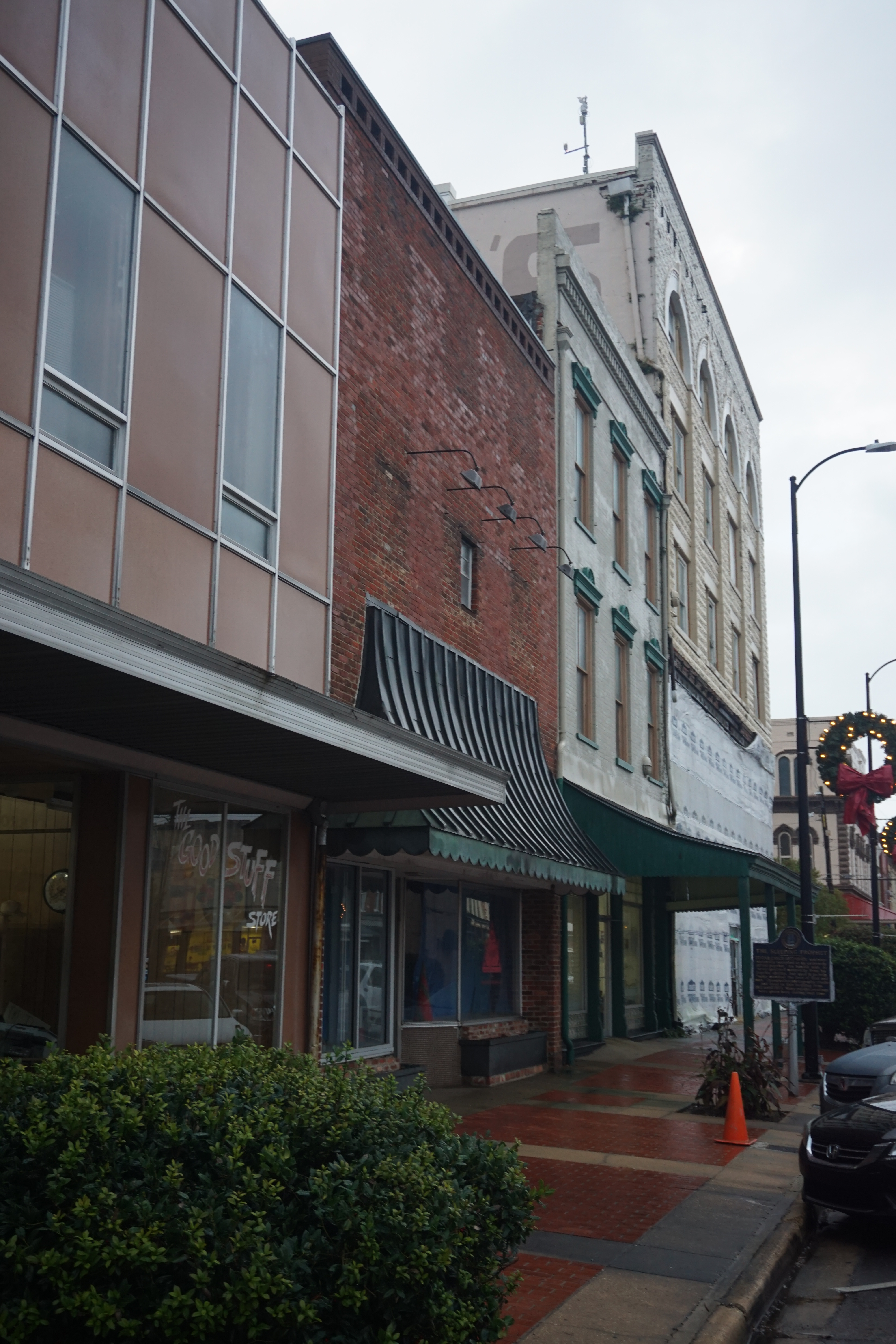 The Edgar Cayce photography studio in Selma, Alabama (United States).